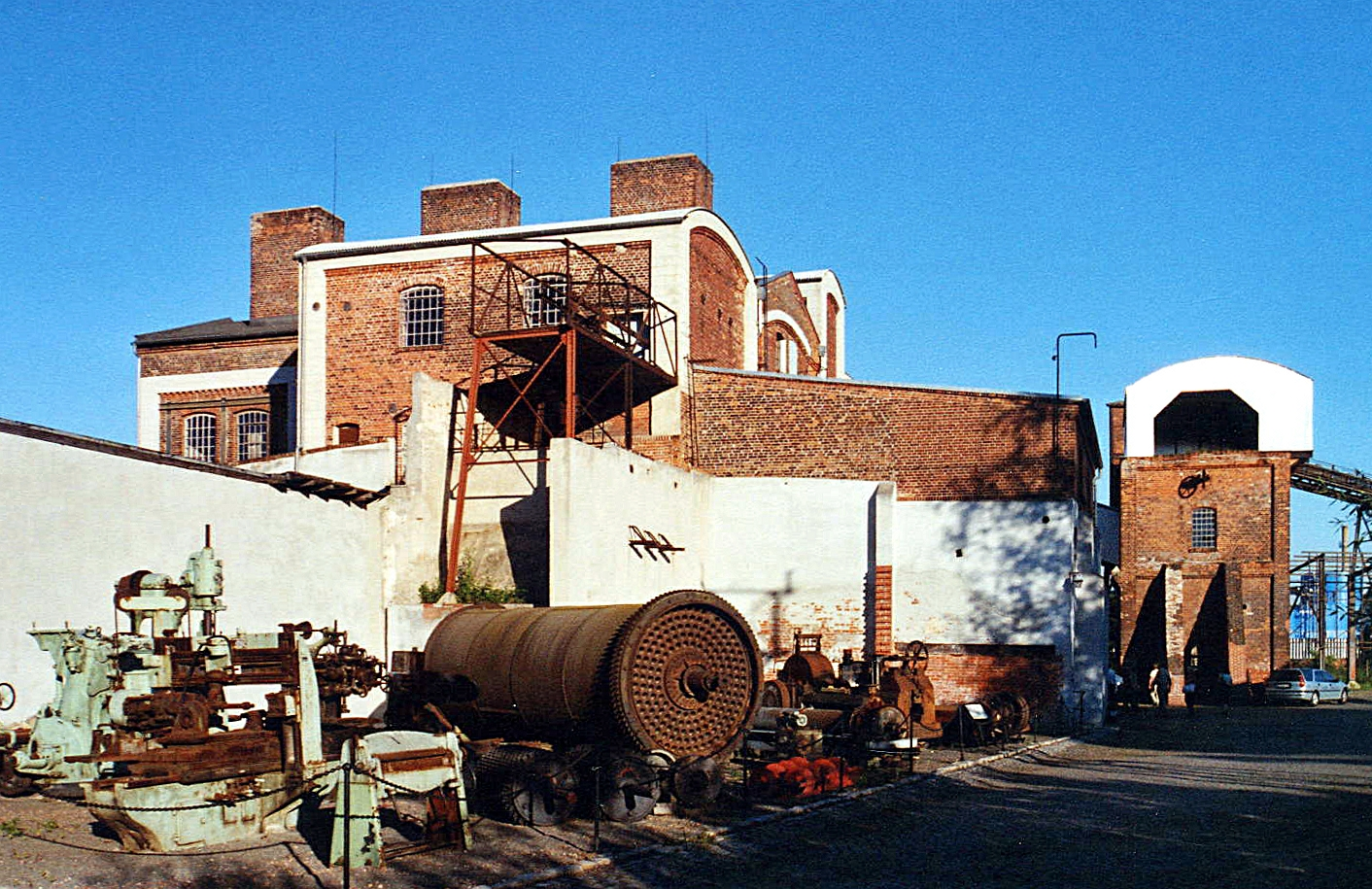 This image shows the briquette factory "Herrmannschacht" in Zeitz. Today the building is regarded as the oldest remaining briquette factory in the world and is used as an industrial museum.